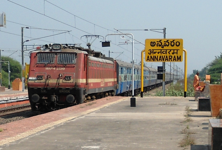 13351 Bokaro Express at Annavaram railway station with an Erode based WAP4 loco